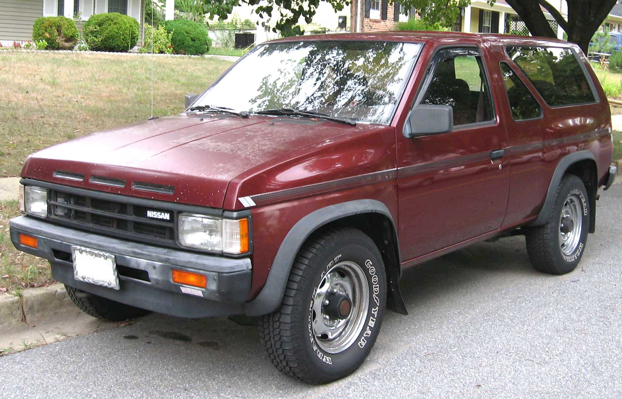 1986-1990 Nissan Pathfinder photographed in USA.